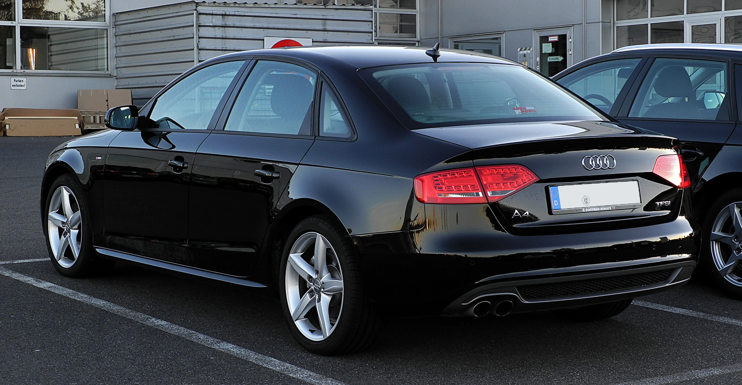 Audi A4 TFSI Ambition S-line (B8)